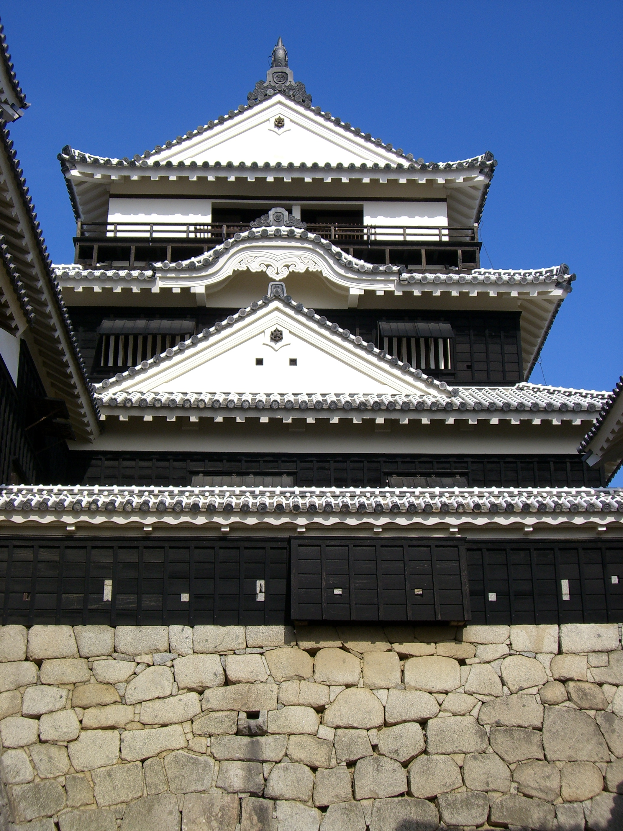 Front of "The Matsuyama Castle Tower" (Important Cultural Property of JAPAN).: Main Castle Tower has three stories, three roofs, and a cellar, and was constructed in the latter period of such castle towers in Japan. (Ehime, JAPAN)